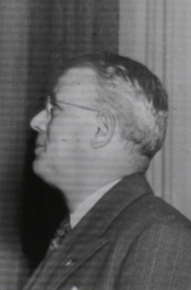 Pete Jarman, US Representative from Alabama